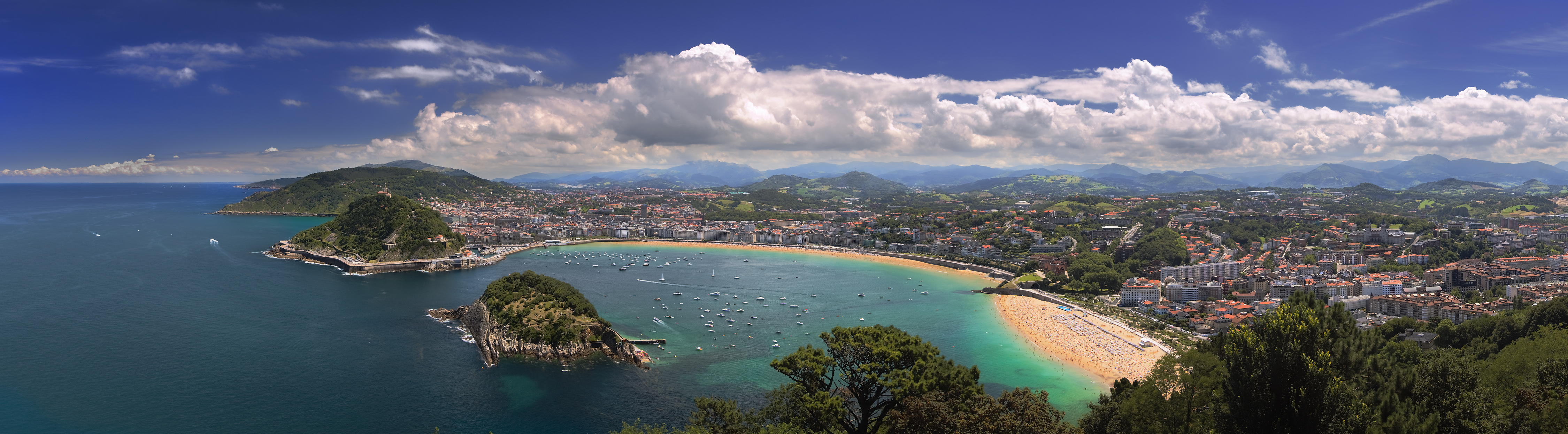 The city of Donostia from top of mount Igeldo.